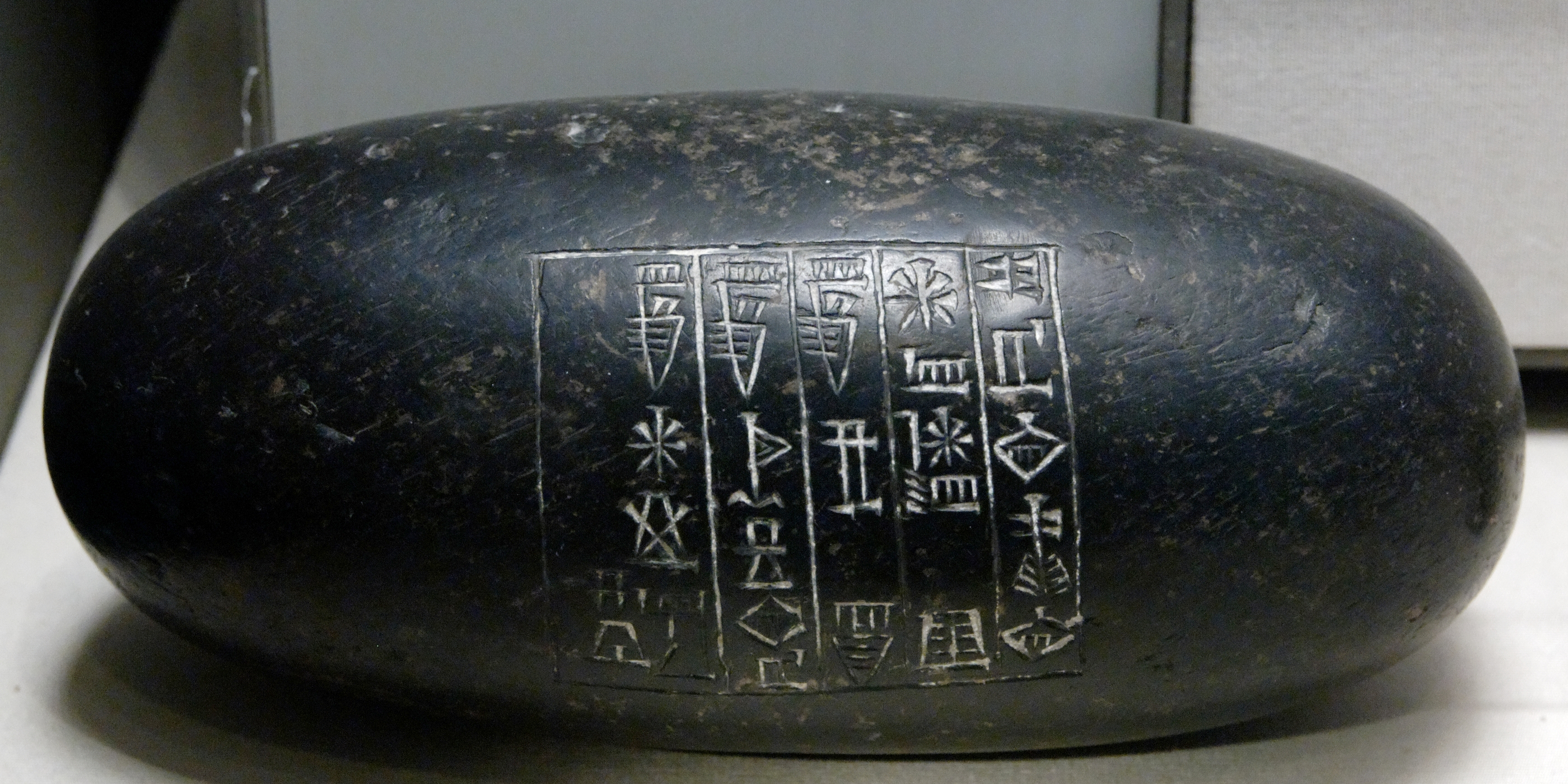 5-mina weight with the name of Shu-Shin, king of Sumer and Akkad. Diorite, ca. 2030 BC. From Telloh, ancient Girsu.